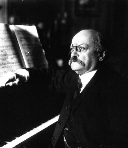 French composer Charles Lecocq (1832-1918).